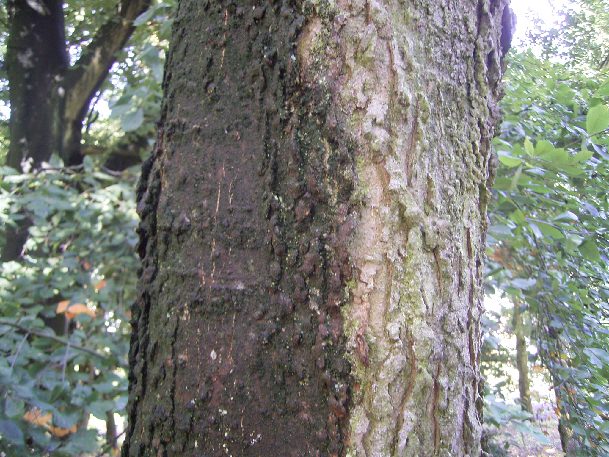 Deze foto toont de Celtis occidentalis. Ik nam de foto op zaterdag 1 oktober in het arboretum in Wageningen. This pic shows the Celtis occidentalis. I took the photo in Wageningen, Netherlands.